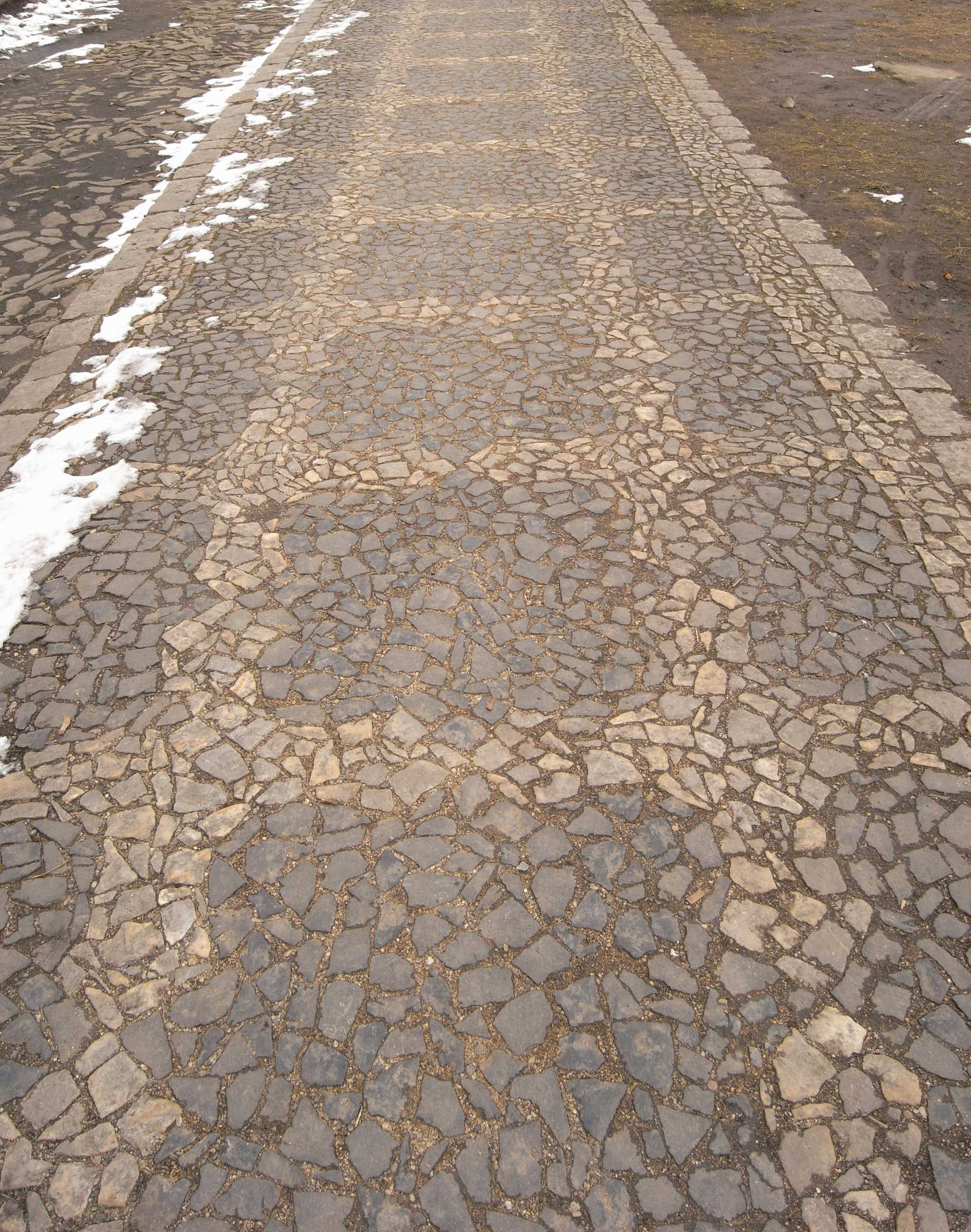 Postoloprty, old pavement (Northern Bohemia, Czech Republic) black: basalt; white: quartzite